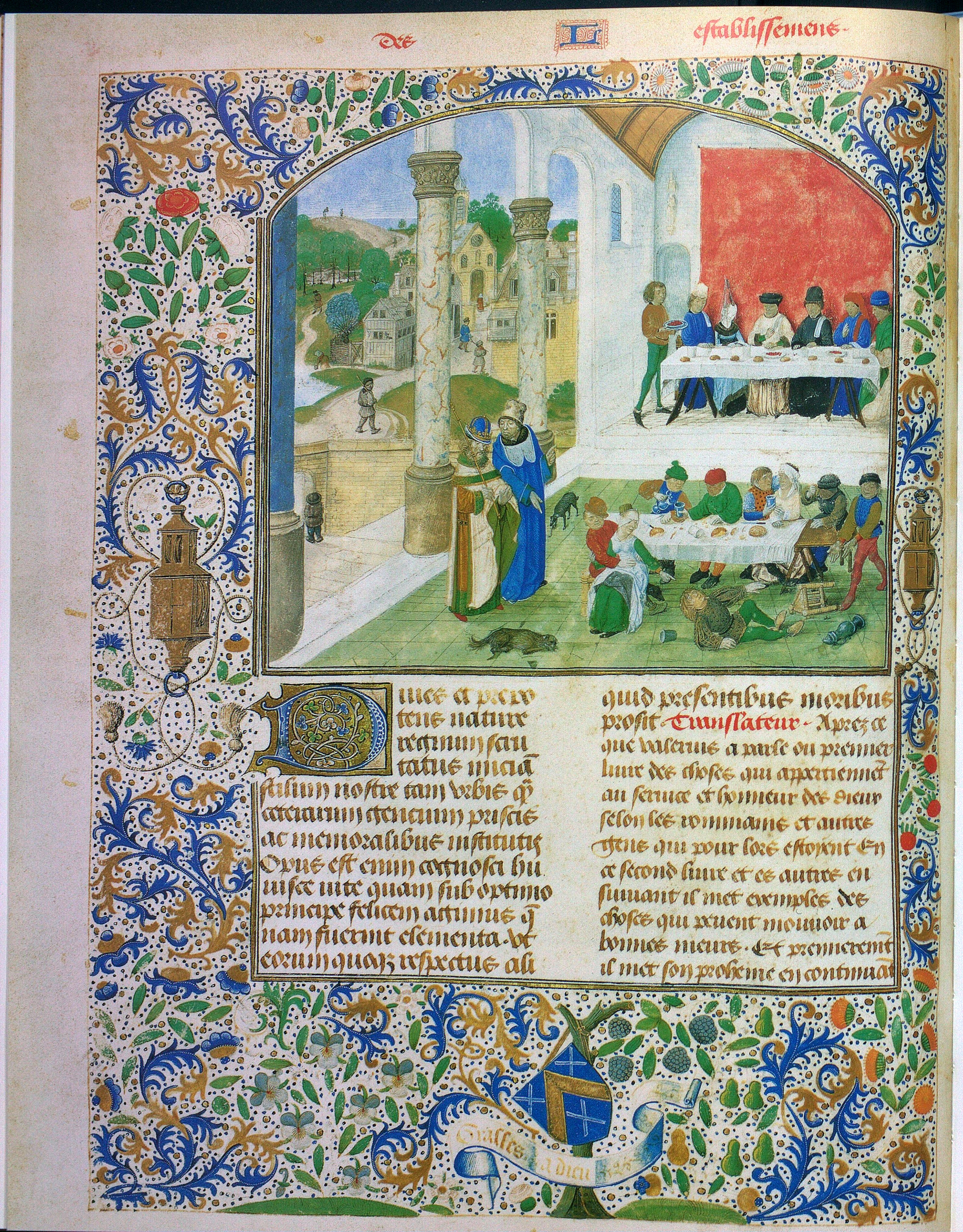 A page of the „Facta ac dicta memorabilia“, Latin text and French translation, in a manuscript from Flanders. The illumination shows the contrast between moderation and debauchery in table manners. Manuscript: Leipzig, Universitätsbibliothek, Ms. Rep. I.11b, Bd. 1, fol. 137v.